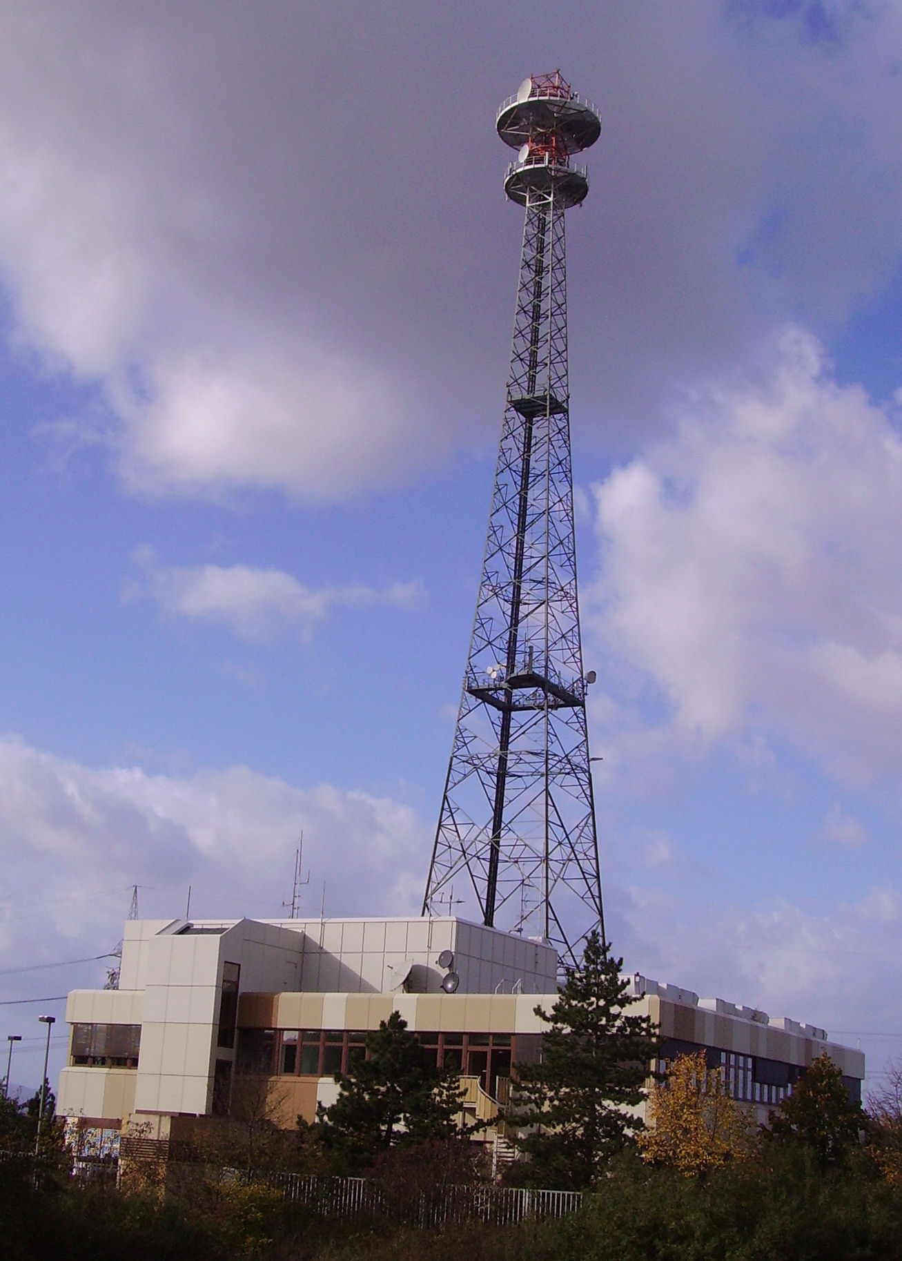 view of Mutterstadt, Germany